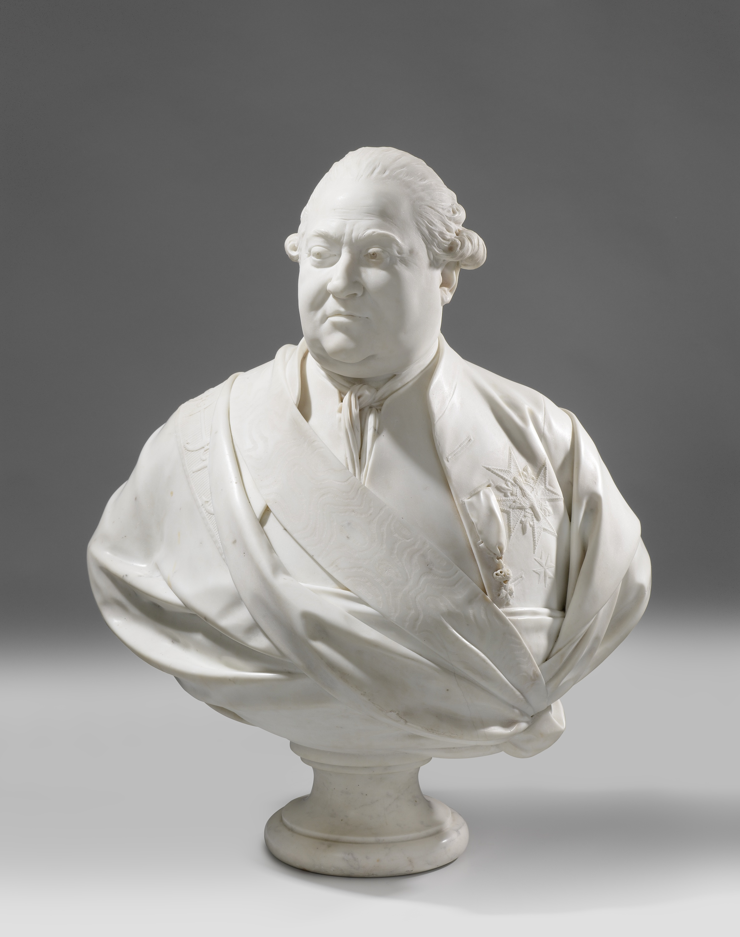 Suffren bust made ​​in 1787 after his return from India.